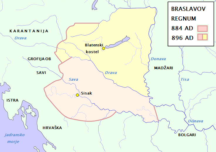 Regnum of Braslav: for northern borders of broadened regnum look at Inzko Valentin (1978): Zgodovina Slovencev do leta 1918. Mohorjeva založba, Celovec. Str. 34; Čepič Zdenko et al. (1979): Zgodovina Slovencev. Cankarjeva založba, Ljubljana 1979, str. 127 in 133; Peršič Janez et al. (1983): Stare kulture. Mladinska knjiga, Ljubljana, str. 144; for southern country look at Annales Fuldenses.